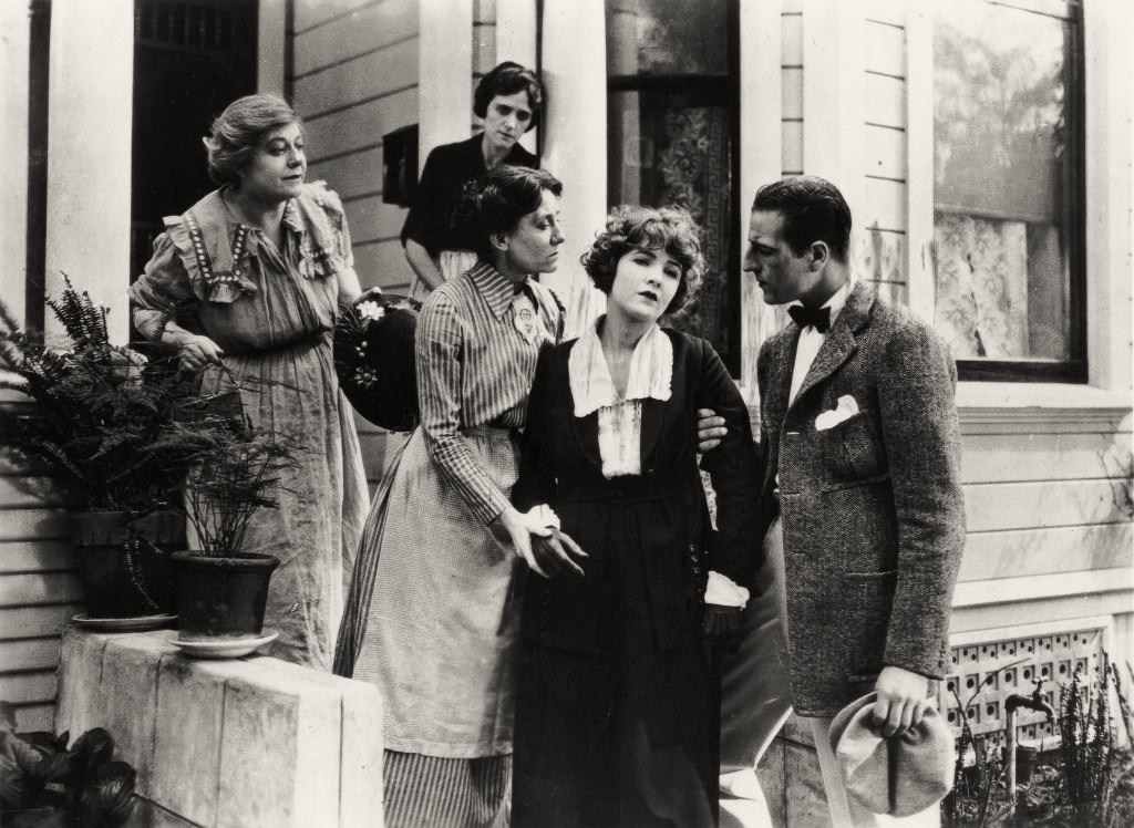 Left to right (foreground): Margaret McWade, Claire Windsor, and Louis Calhern in The Blot (1921) - publicity still.